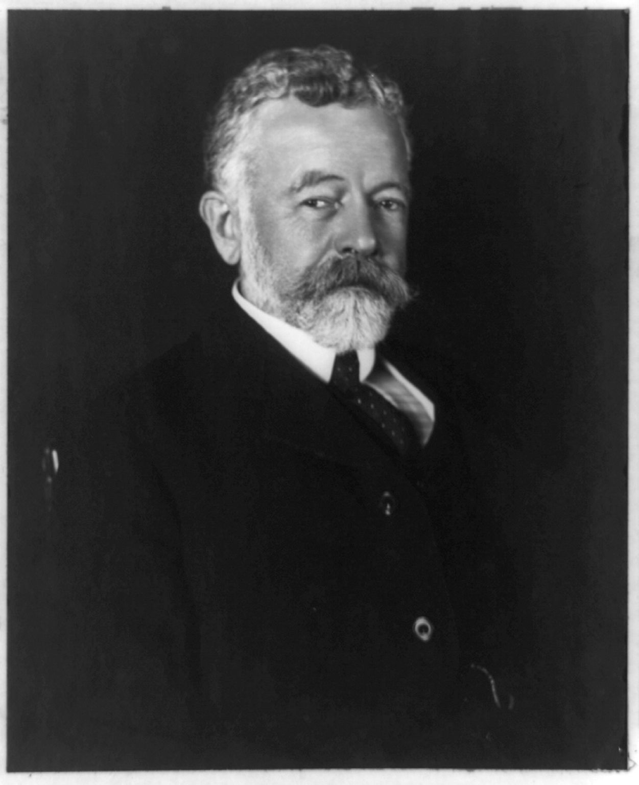 Henry Cabot Lodge, half-length portrait, facing right